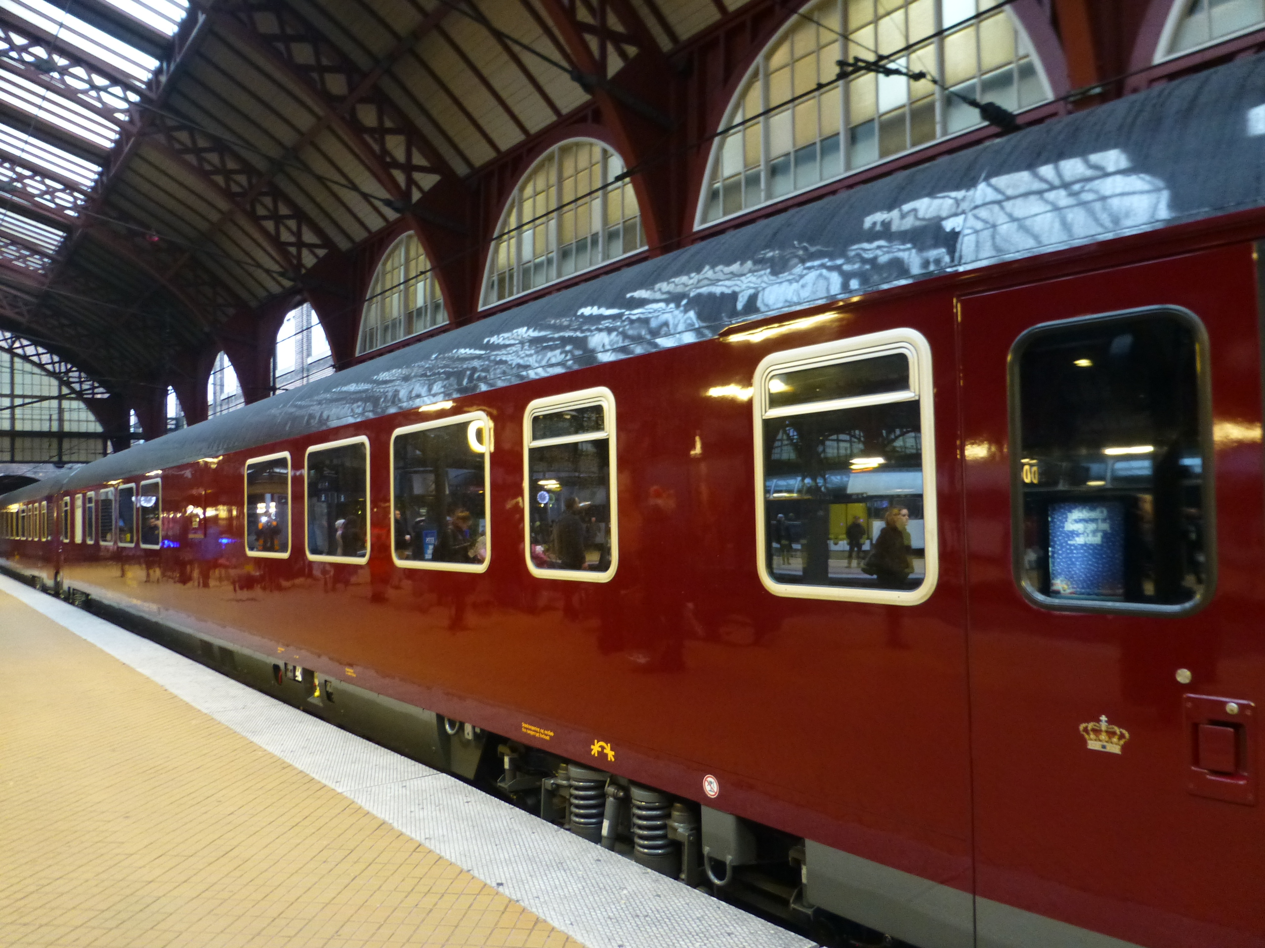 Royal train bound for Aarhus at Copenhagen Central station. The train consist of diesel locomotive DSB ME 1516, royal saloon car DSB S 001 and attentdant car DSB WRm 603.